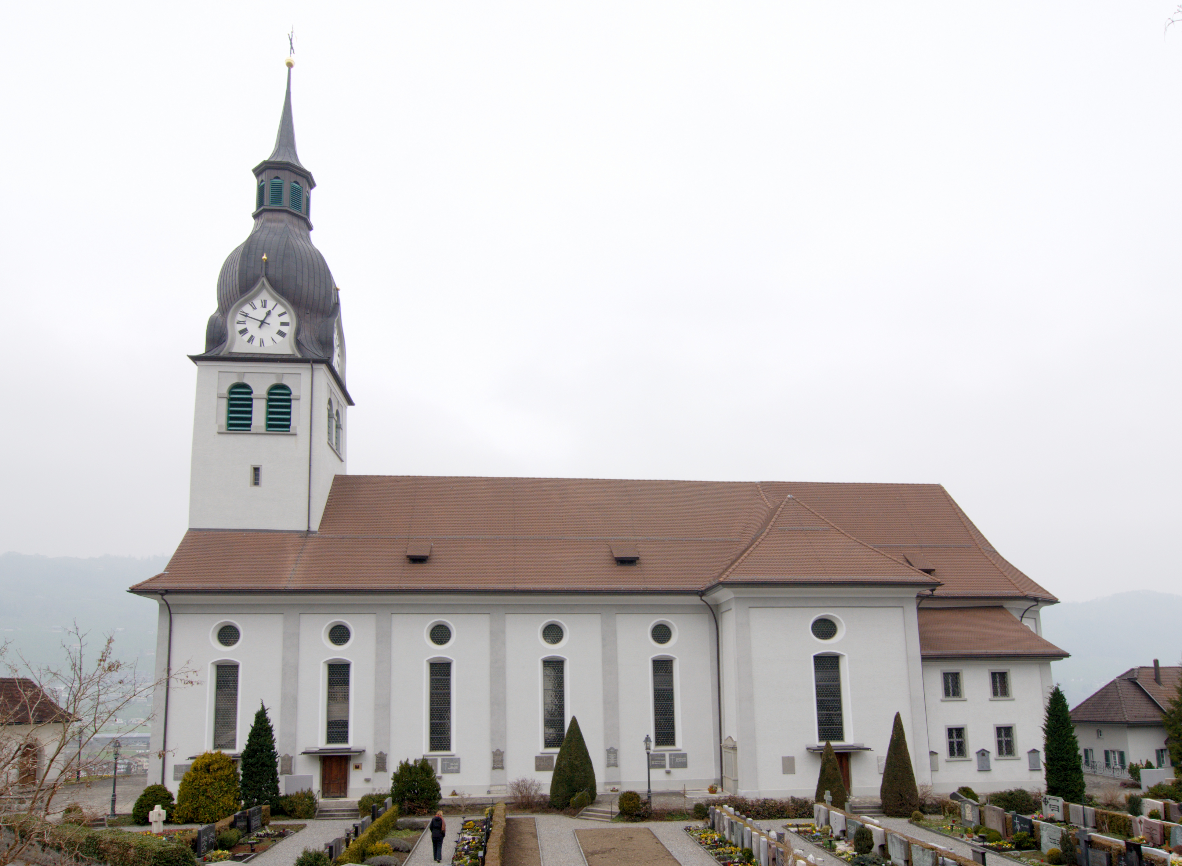 Catholic parish church of St. Martin in Buochs